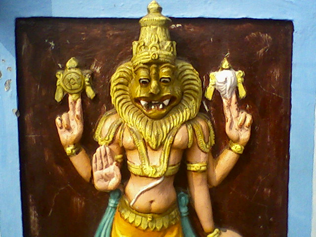 Relief of Lord Narasimha at Bhadrachalam Temple, Khammam district